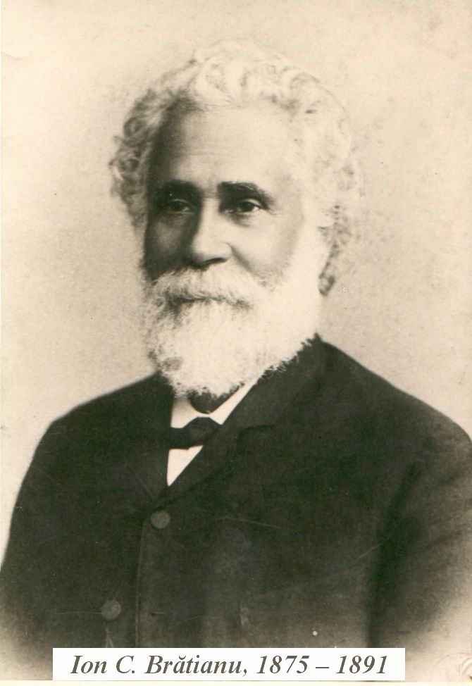 Ion Brătianu